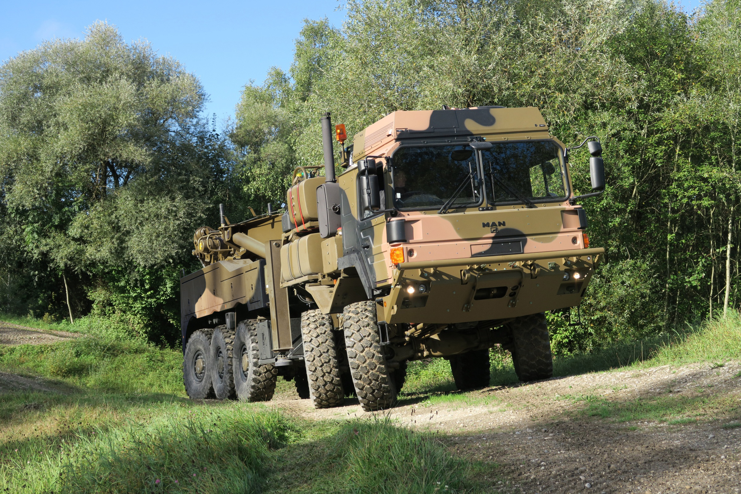 Configured as a recovery vehicle for Australia, one of the first production HX45M.